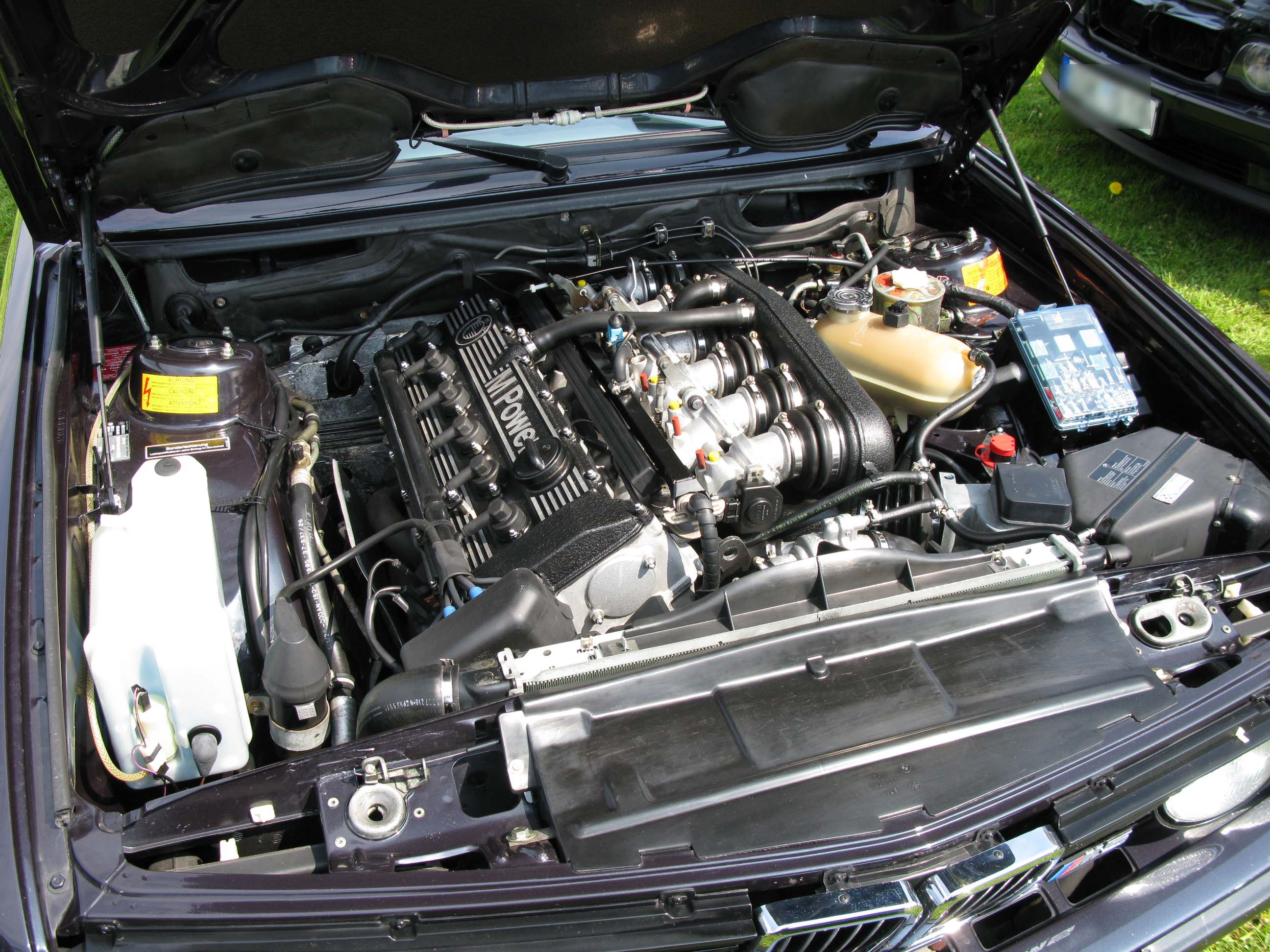 Event: Tjolöholm Classic Motor 2012.